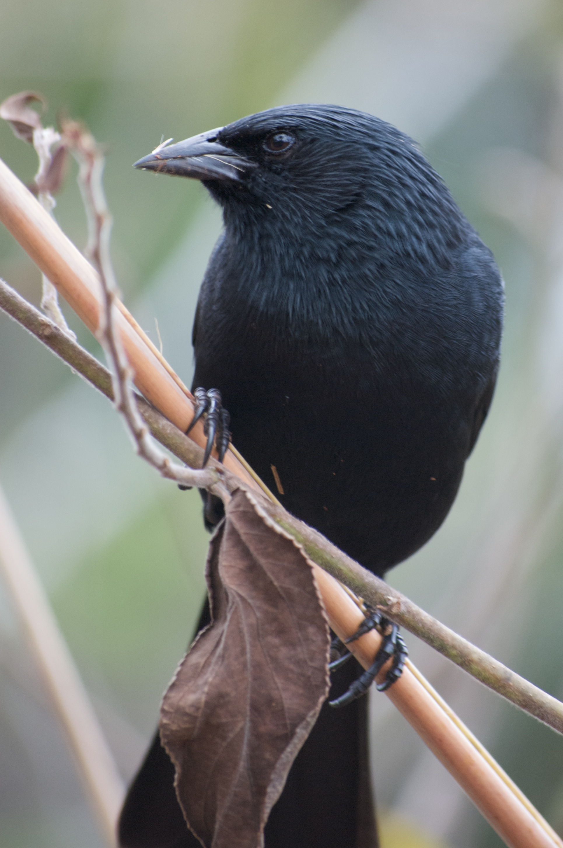 A Chopi Blackbird at Iguazu Falls in Iguazu National Park, Argentina.